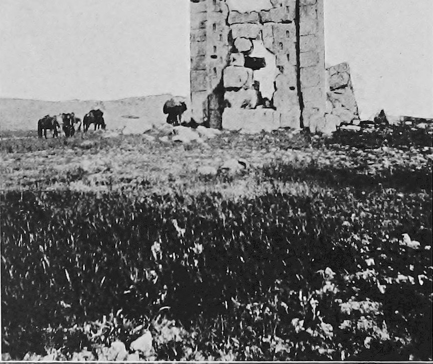 Identifier: cu31924028627036 Title: Persia past and present; a book of travel and research, with more than two hundred illustrations and a map Year: 1906 (1900s) Authors: Jackson, A. V. Williams (Abraham Valentine Williams), 1862-1937 Subjects: Zoroastrianism Publisher: New York, The Macmillan Company London, Macmillan & Co., ltd. Text Appearing Before Image: ' Text Appearing After Image: THE APPROACH TO THE RUINS 281 believes that it was the Tomb of Cambyses, the father ofCyrus ; Curzon agrees that it was a sepulchre, even if he doesnot go so far as to assign it definitely to the father of Cyrus.All scholars unite on one point, in comparing it with a similaredifice near the tombs of the kings at Naksh-i Rustam, and Ibelieve that most of them are correct in supporting the viewthat the edifice was an Achsemenian shrine of fire, as I shallmaintain in the next chapter. ^ But scarcely a stone of theonly wall that survives is in its exact position to tell the storyof the past. The present dilapidation of the building, the hard,cold whiteness of the stone, and the contrast which it showedto the soft green of April that freshly decked the plain, as itdoes ever anew, made a vivid impression upon me. Several hundred yards farther southward is a solitary shaft,nearly twenty feet high and broken at the top. It is com-posed of three blocks, as shown by my photograph, and looksas i